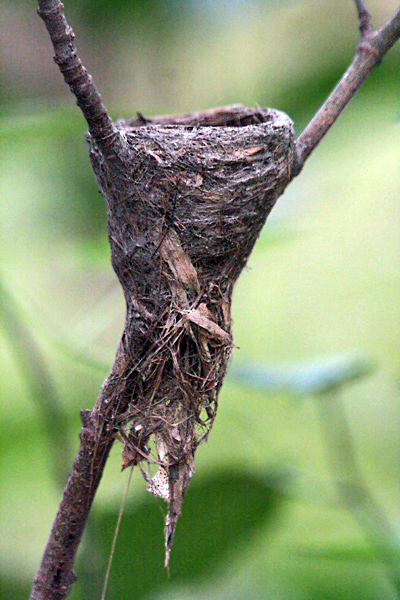 White-throated Fantail ((Rhipidura albicollis)) in Kolkata, West Bengal, India.